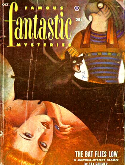 Famous Fantastic Mysteries, October 1952